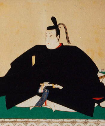 池田斉敏（第11代岡山城主）、Ikeda Naritoshi(the 11th Okayama castellan)